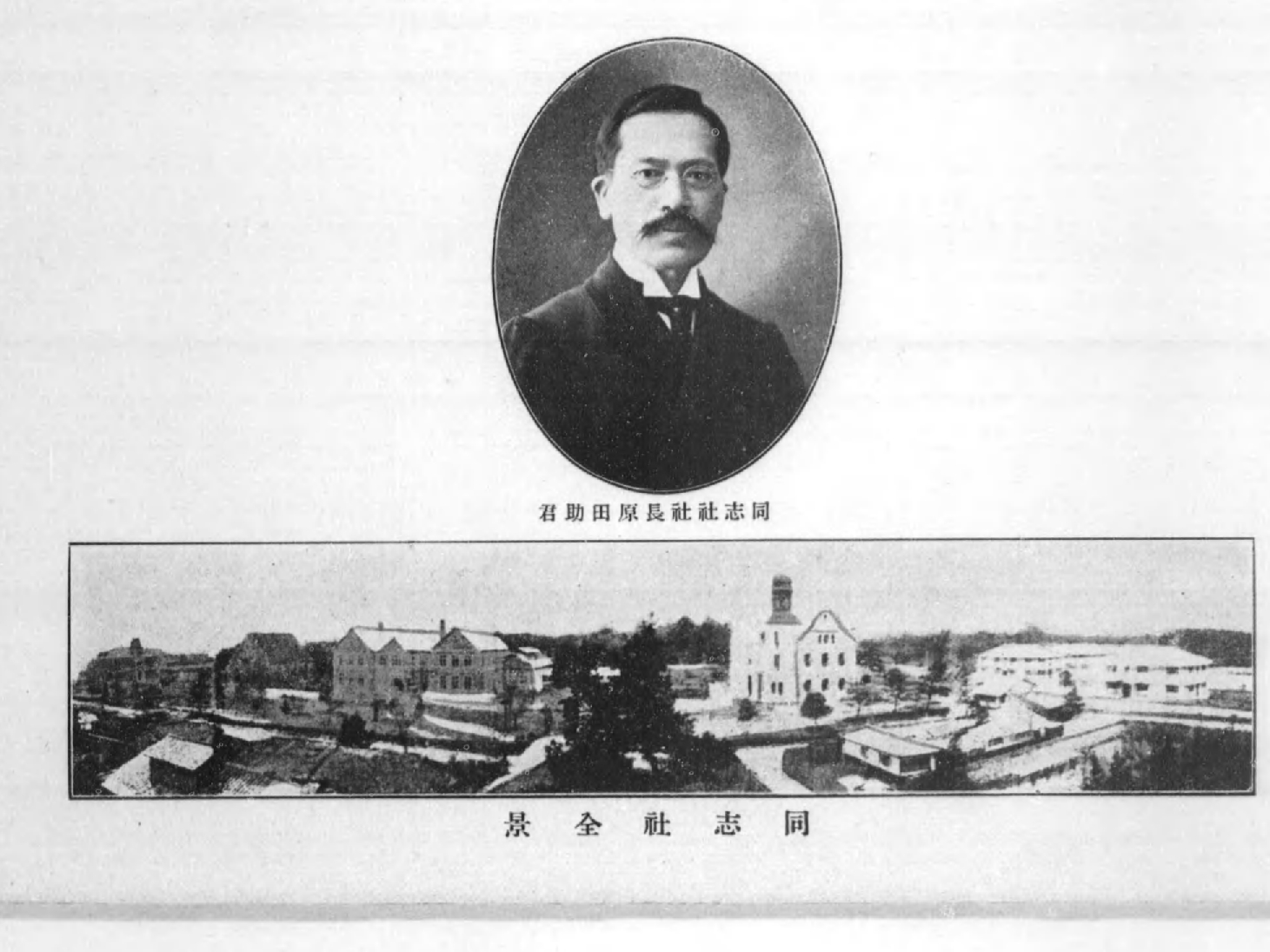 Doushisya and Harada.